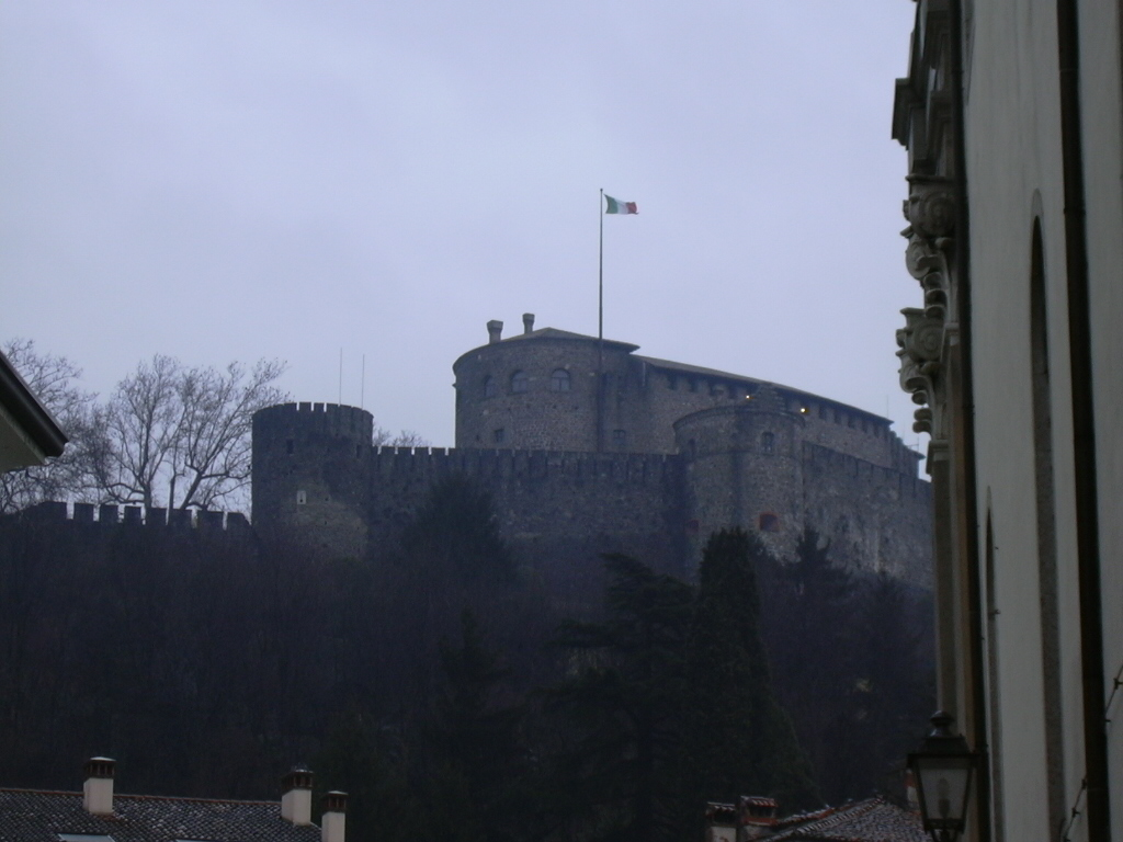 The Castle of Gorizia.